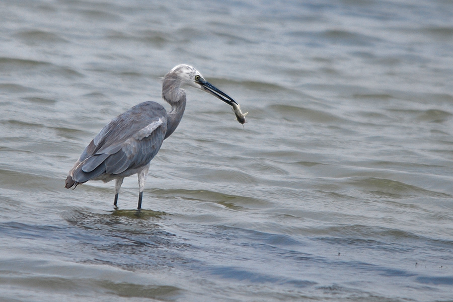 WesternReefEgret-Pulicat